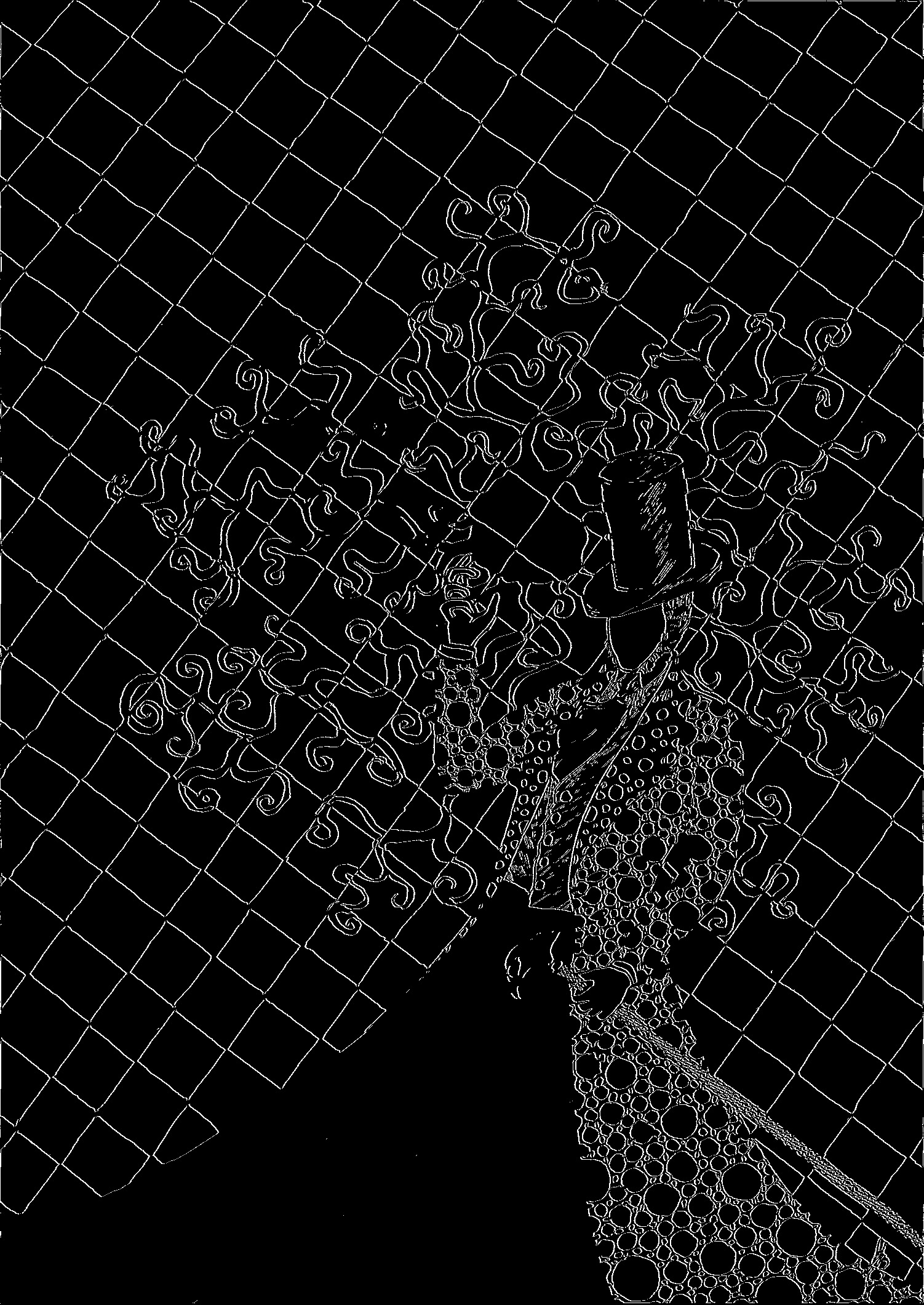 Magician artwork after applying Deriche edge detector with parameters alpha = 4, low_treshold = 50, high_treshold = 90.